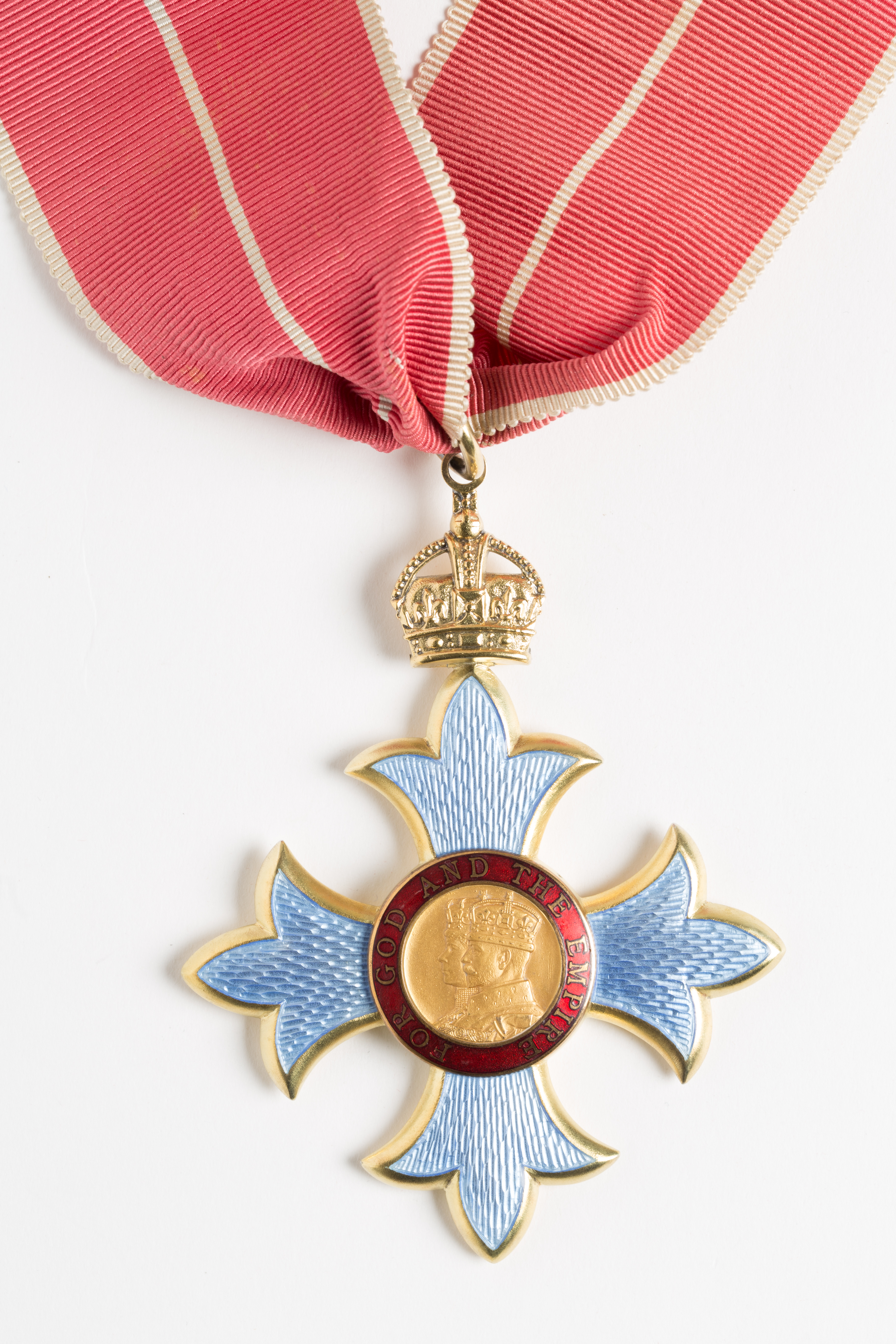 The Most Excellent Order of the British Empire - Commander (Mil) - CBE - neck badge Awarded to Brigadier Edward Talbot Rowllings, CBE (Mil) NZSC ADC metal and enamel cross shaped medal, 64mm wide, ring suspension, with ribbon obverse- pale blue enamelled cross with crimson ring with motto FOR GOD AND COUNTRY with George V and Queen Mary reverse- Royal Cypher ribbon- grosgrain ribbon, 44mm wide, crimson with white striped edges and white stripe down centre